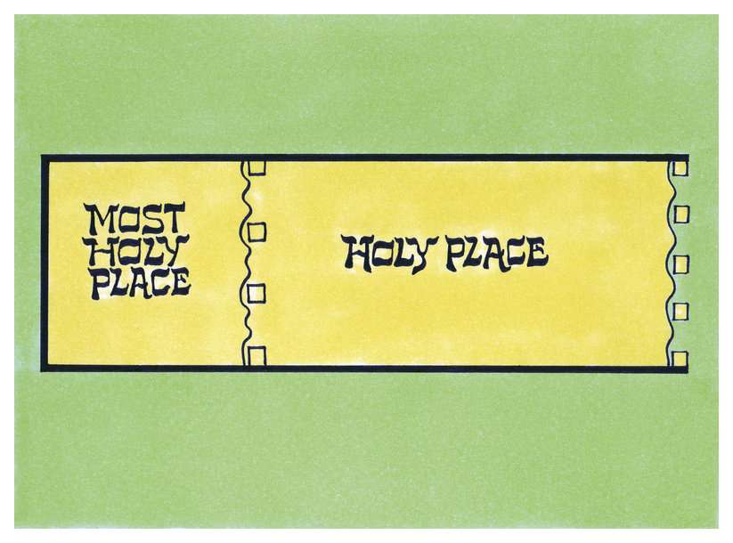 Biblical illustration of Book of Exodus Chapter 27